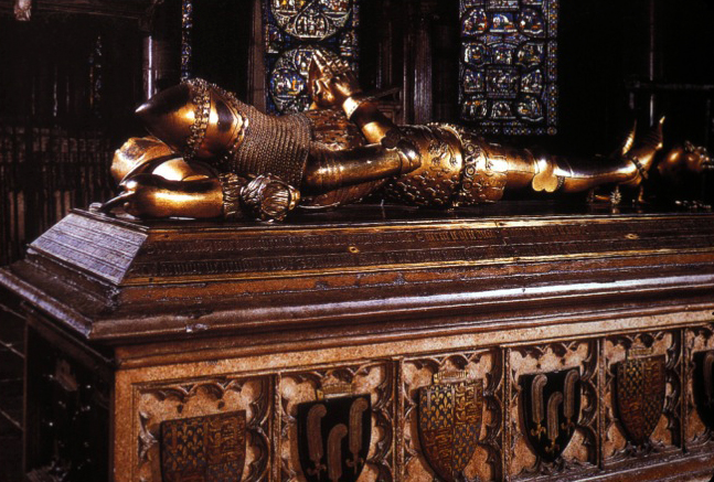 TOMB OF EDWARD, THE BLACK PRINCE – ELDEST SON OF EDWARD III. HE DIED IN 1376; KNOWN AS A VERY GIFTED WARRIOR WHO INSPIRED SUCH TERROR IN HIS ENEMIES AS TO EARN HIS OMINOUS TITLE.